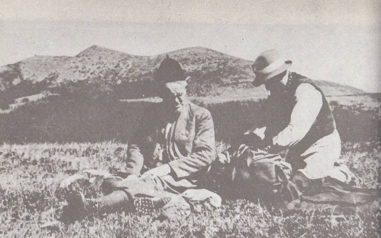 Mieczysław Orłowicz (left) on Taupisz Mountain. Syvulia Mountain behind him.